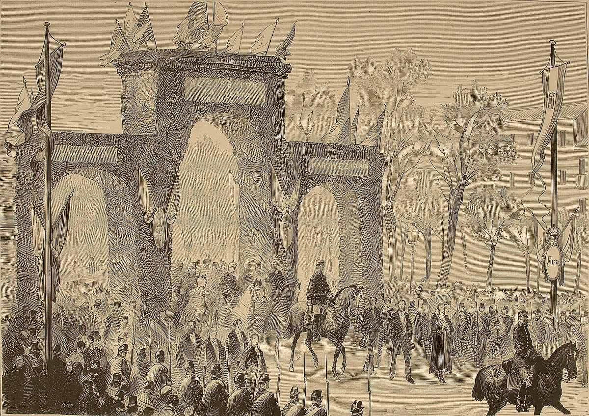 The Spanish governmental Northern Army's parade in Pamplona, 1876, at the end of the Third Carlist WarEuskara: Espainiako gobernuaren Iparraldeko Armadaren parada Iruñean, 1876, Bigarren Karlistaldiaren amaieran